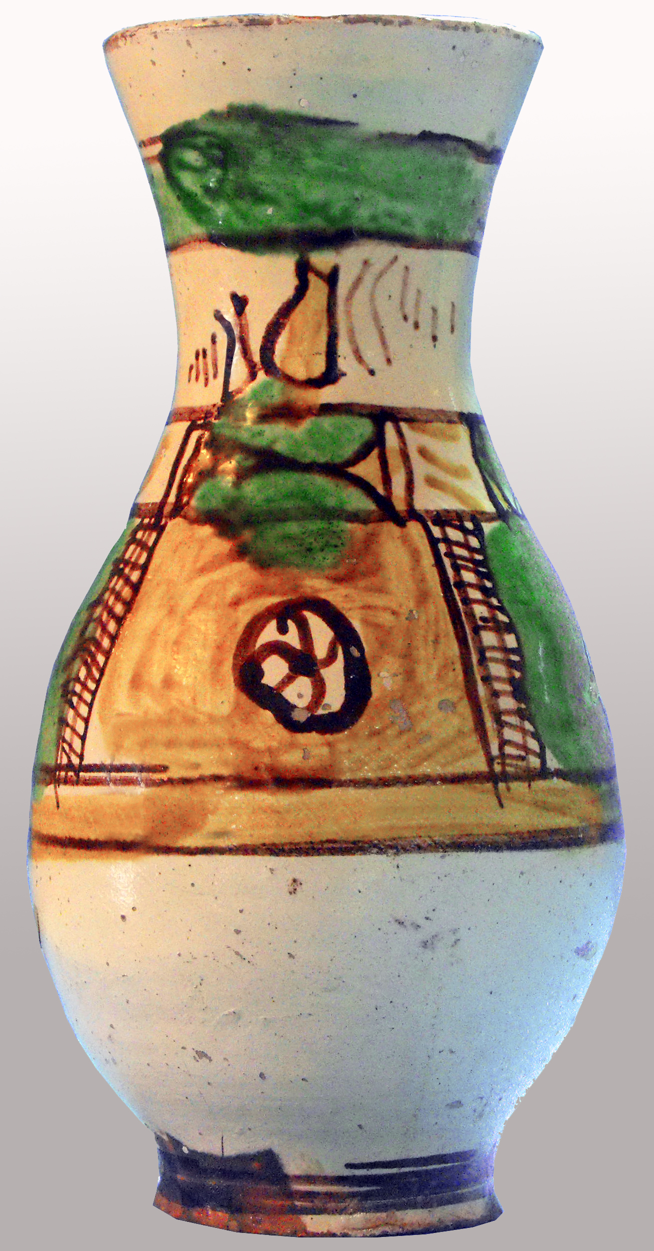 Bokály from Vajdahunyad